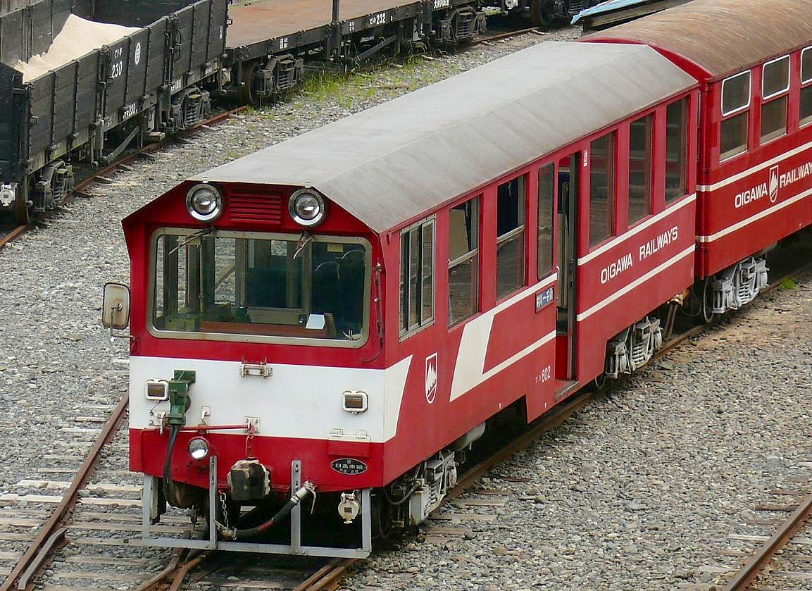 Oigawa Railway Train type kuha602 Passenger car (Japan). 大井川鐵道井川線の両国車輌区に留置されているクハ602 敷地外より撮影。